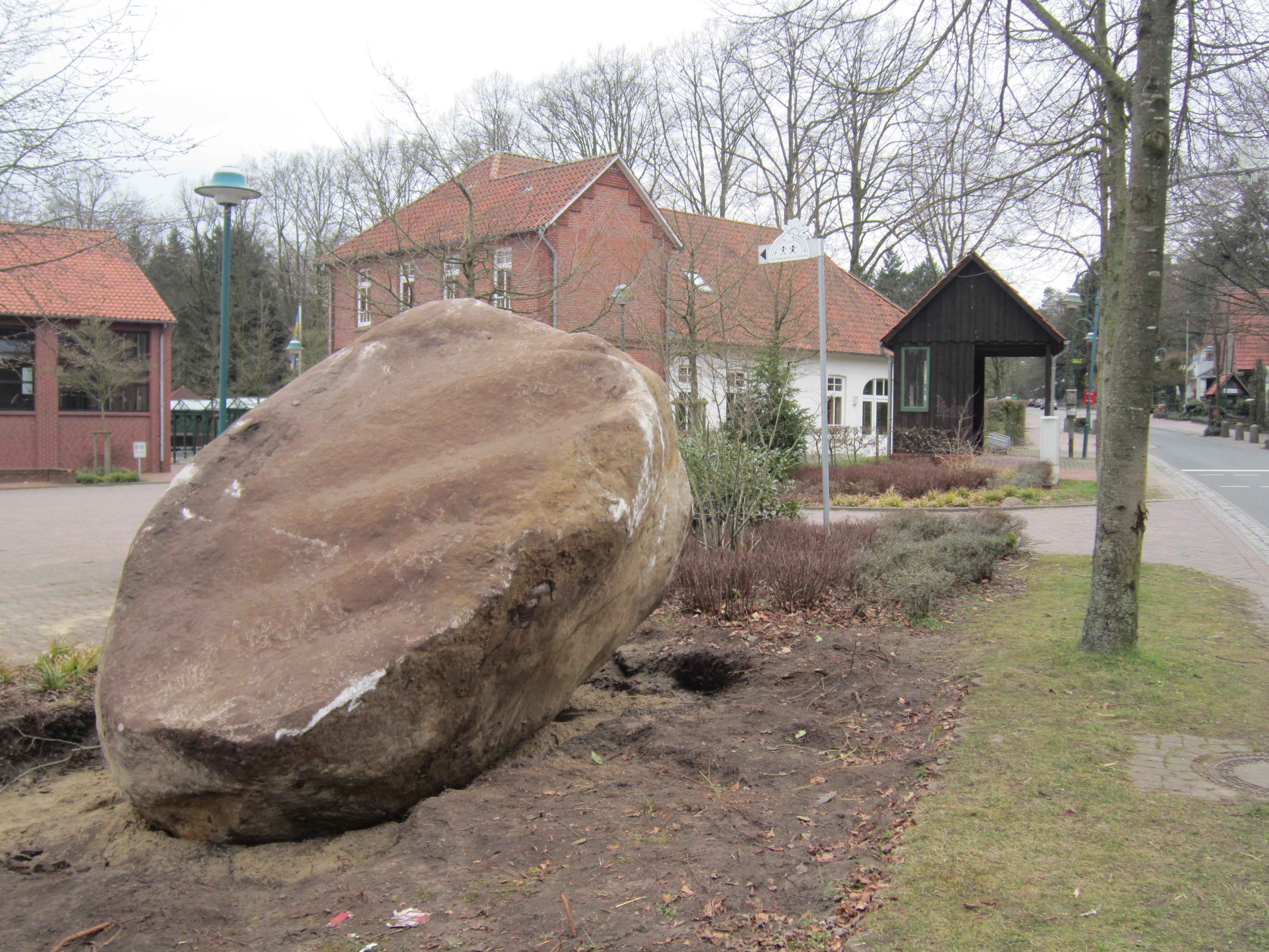 Glacial erratic in Kroge (Lohne), 30.2 tons heavy